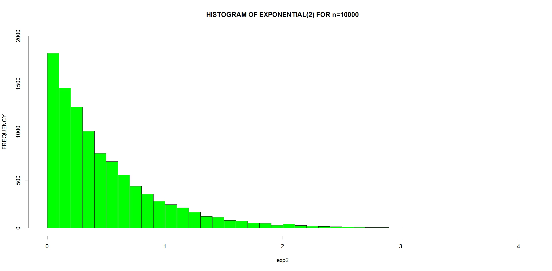 histogram of Exponential(2) distibution